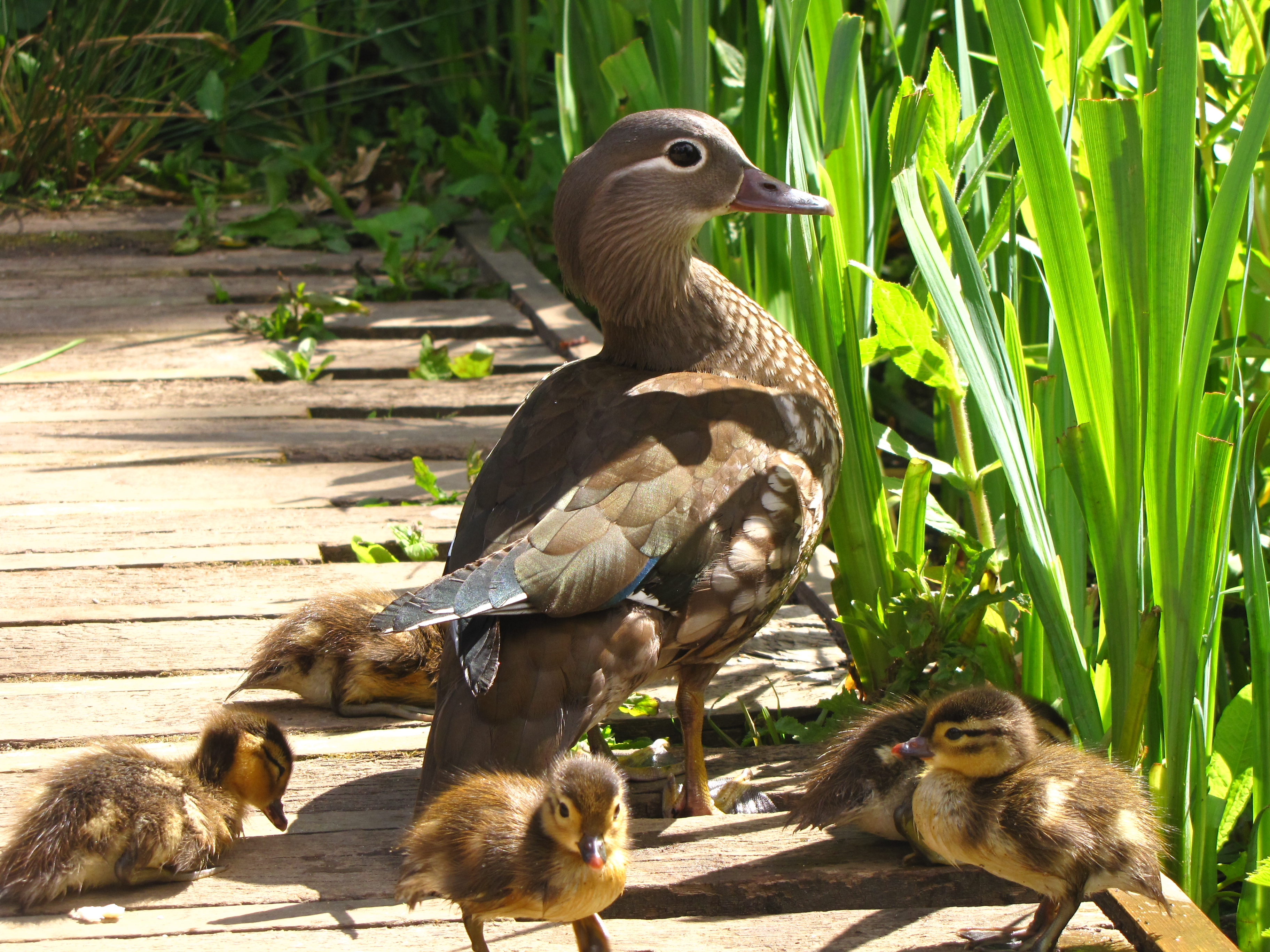 A Mandarin Duck mother with ducklings at Richmond Park, London, England -mother and ducklings.